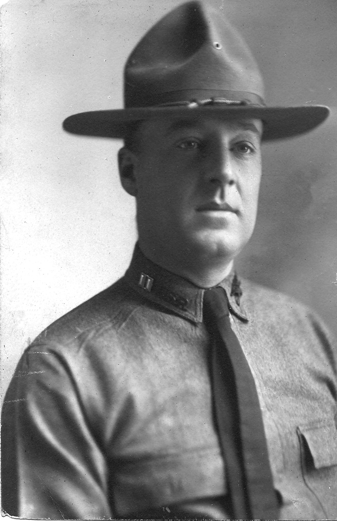 German Horton Hunt Emory, US Army Photo